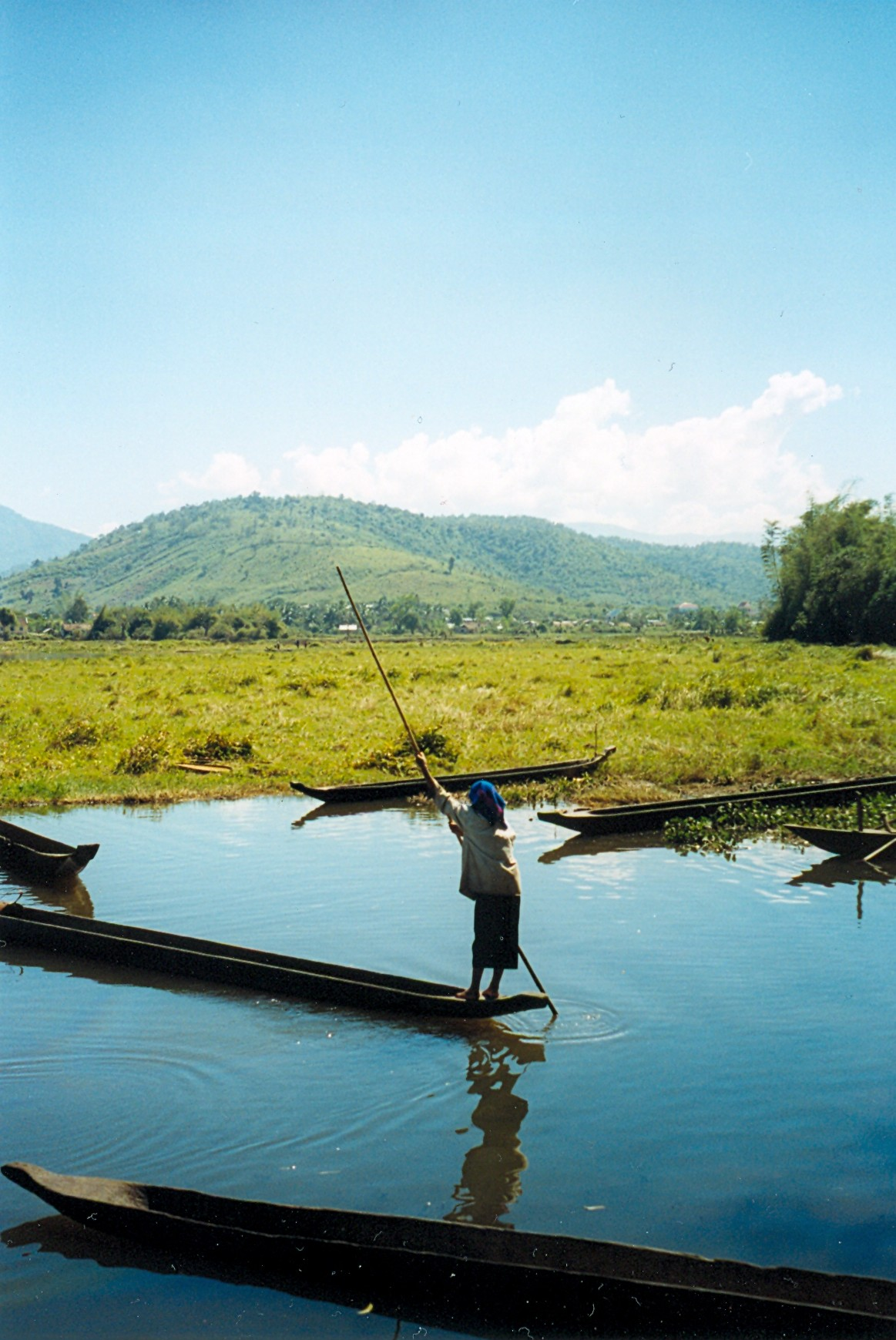 Lăk Lake, near the Mnong village of Buôn Jun, Vietnam.